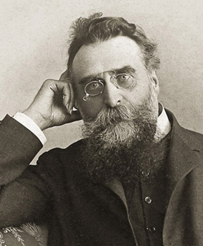 Dr. Jonas Basanavičius. One of the signatories of Lithuanian independence act.